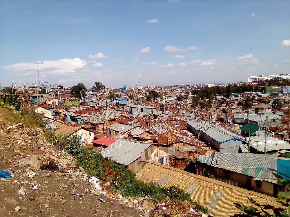 Kiswahili: The poorer part of Kibera